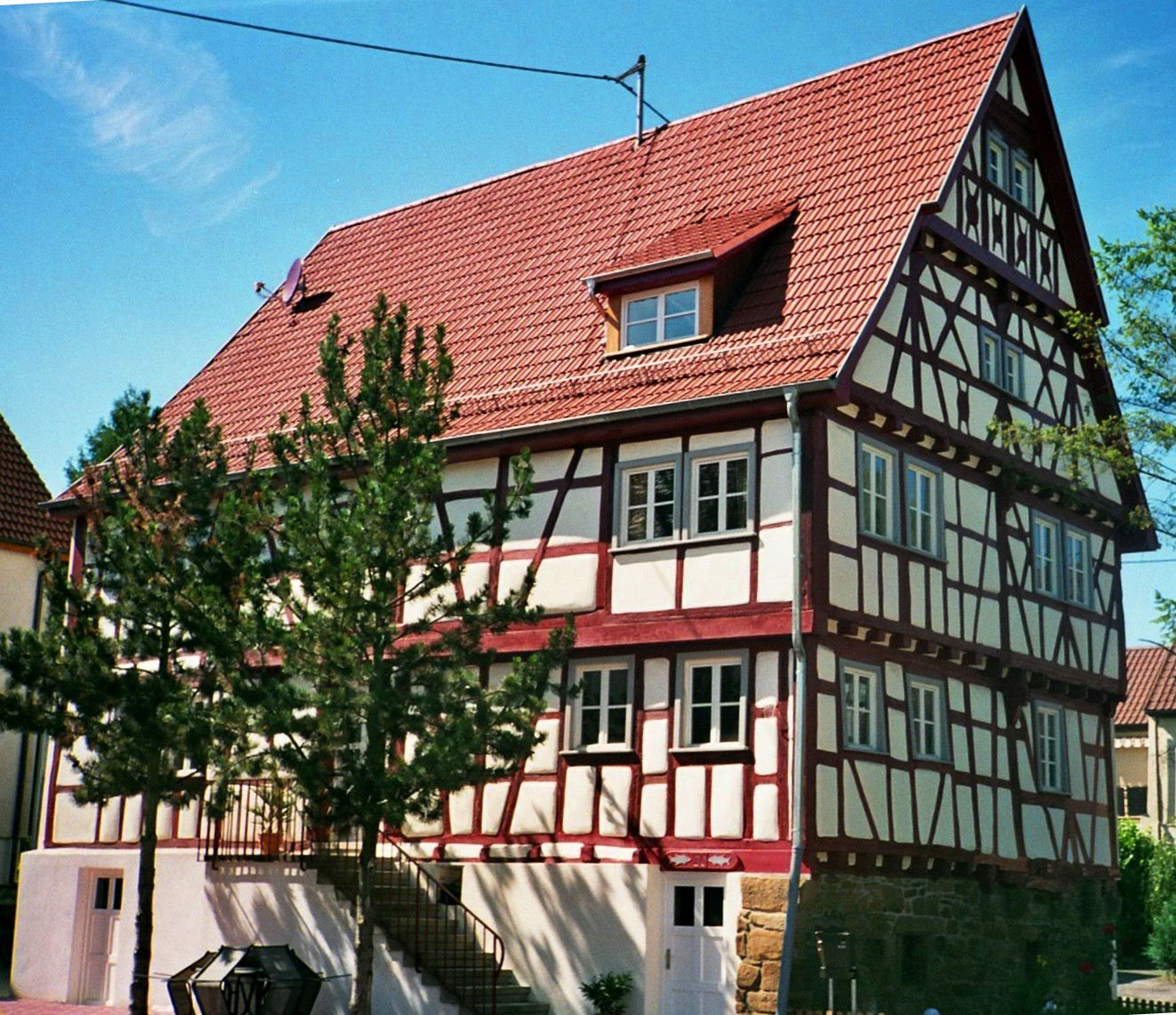 Flein_Ilsfelder_Str._Fischerhaus_1592_Seitenansicht.JPG